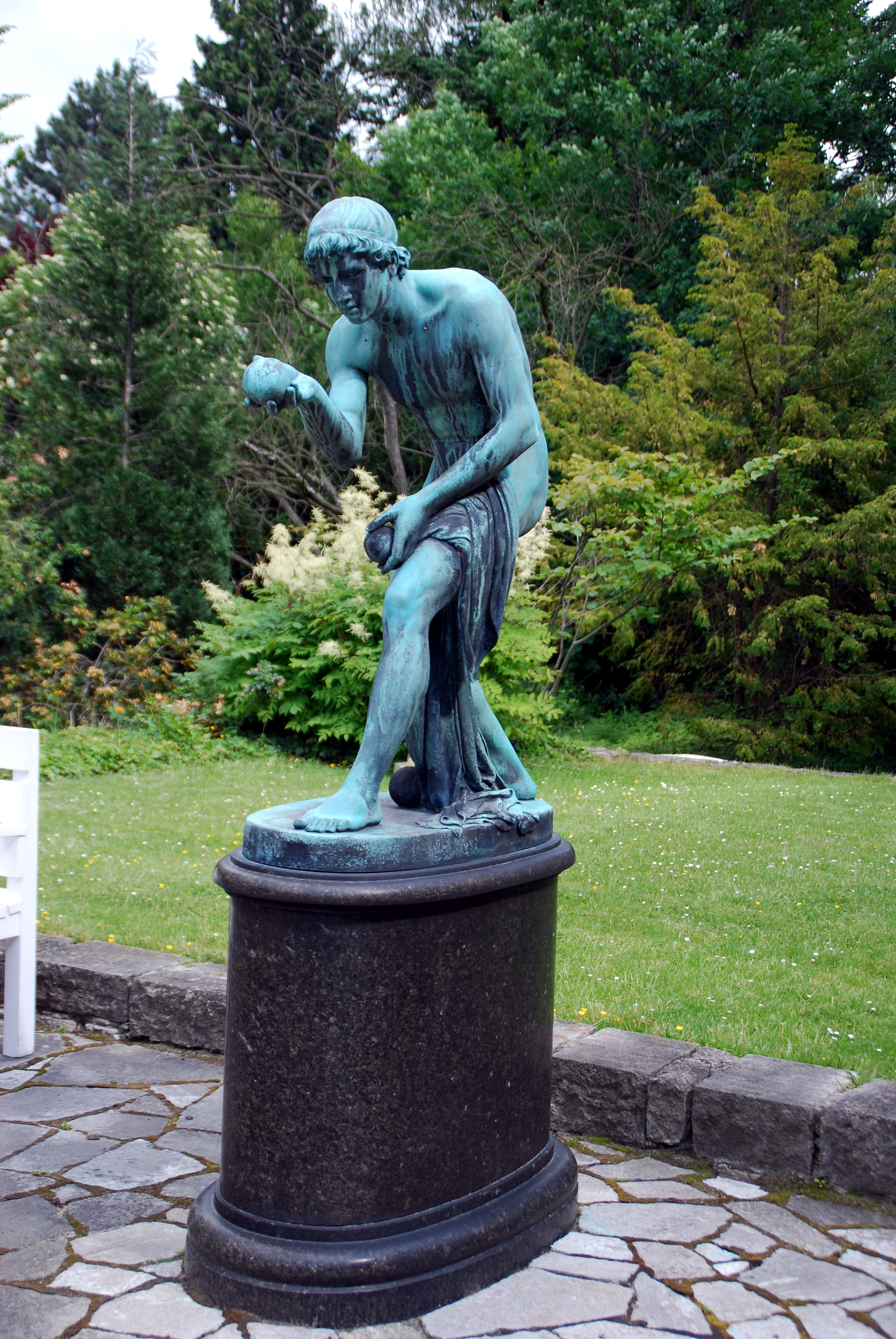 Ballplayer by Georg Christian Freund (1859), Copy at the Haus Wiegand, Berlin